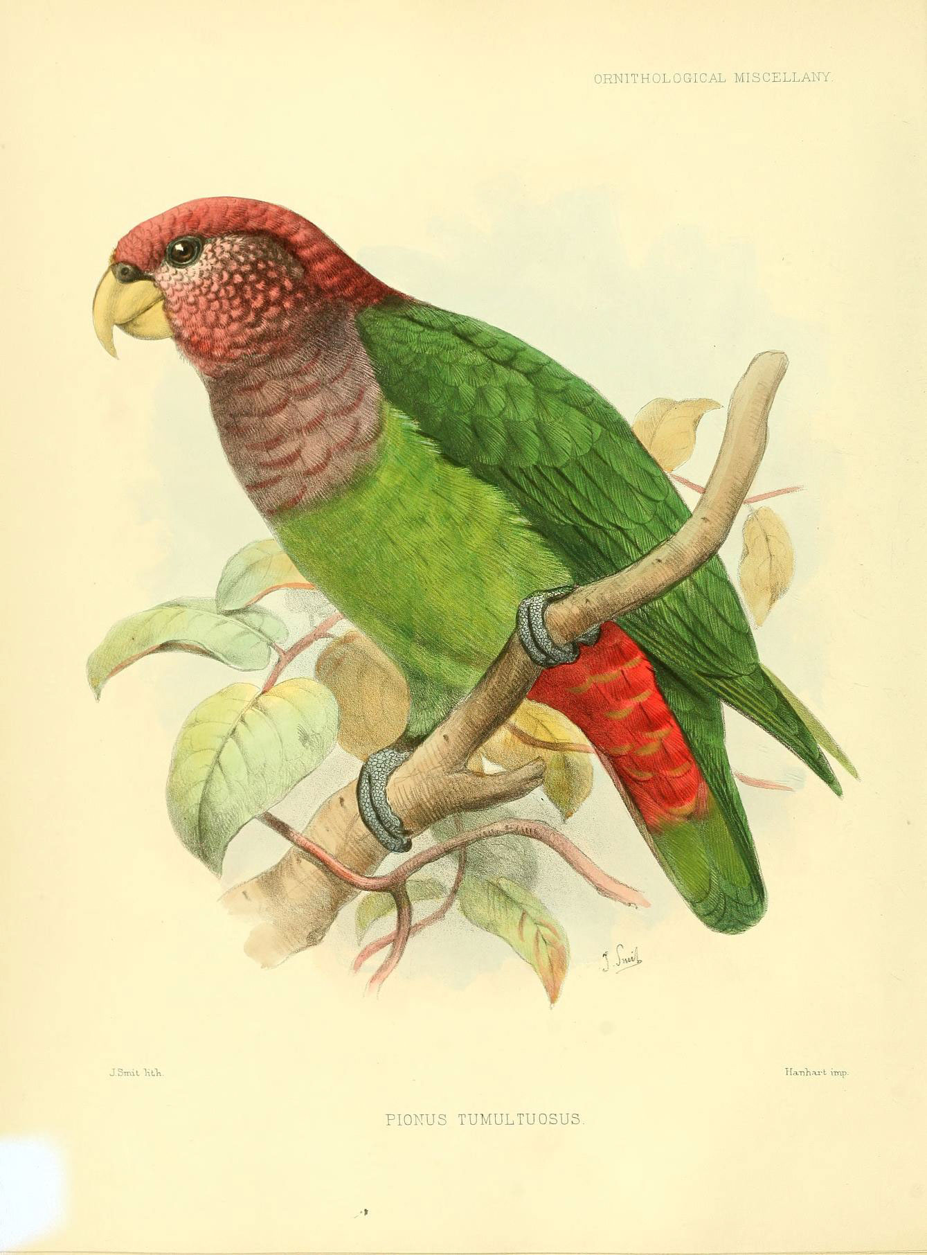 ORNITHOLOGICAL MISCELLATff. JSmit MtW. Tra.-n'h.ai-t -t \-mp- PIONUS TUMULTUOSUS.